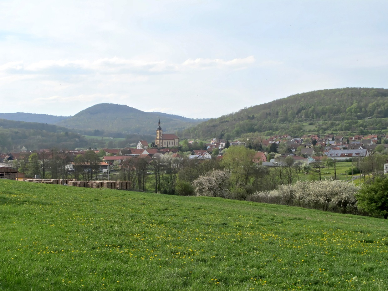 Municipality of Oberelsbach, View from South